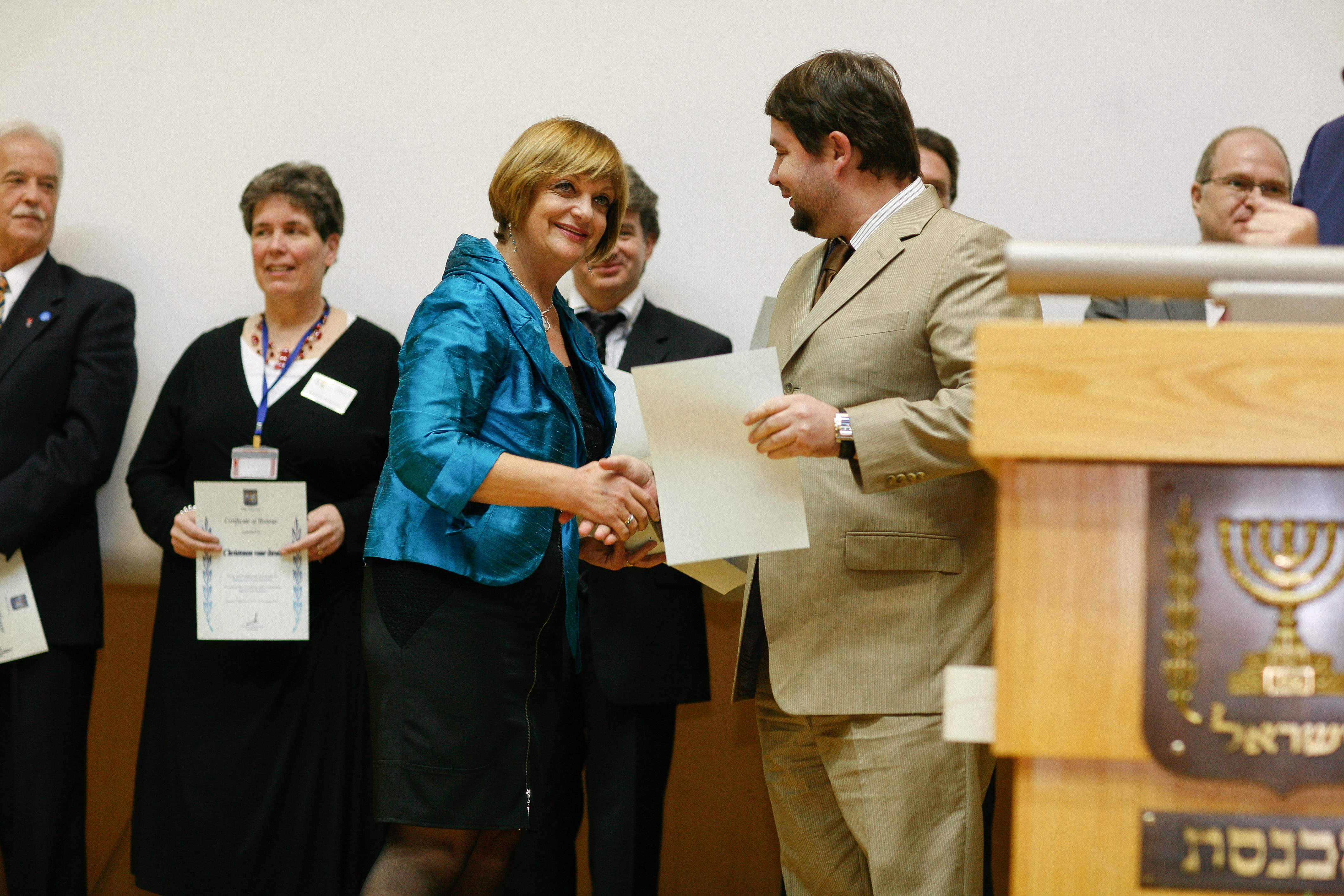 Nikitin Igor being rewarded